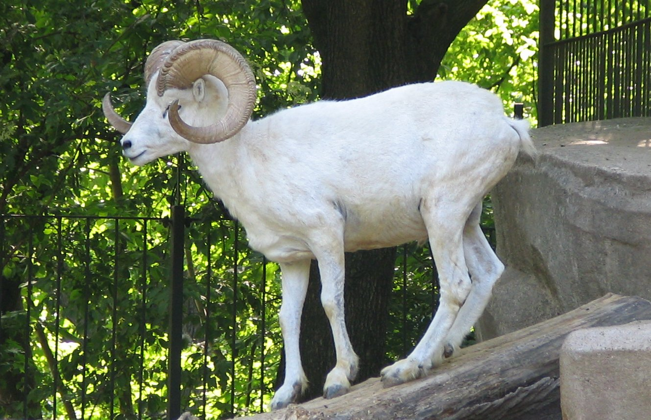 Dall-Schaf / dall sheep